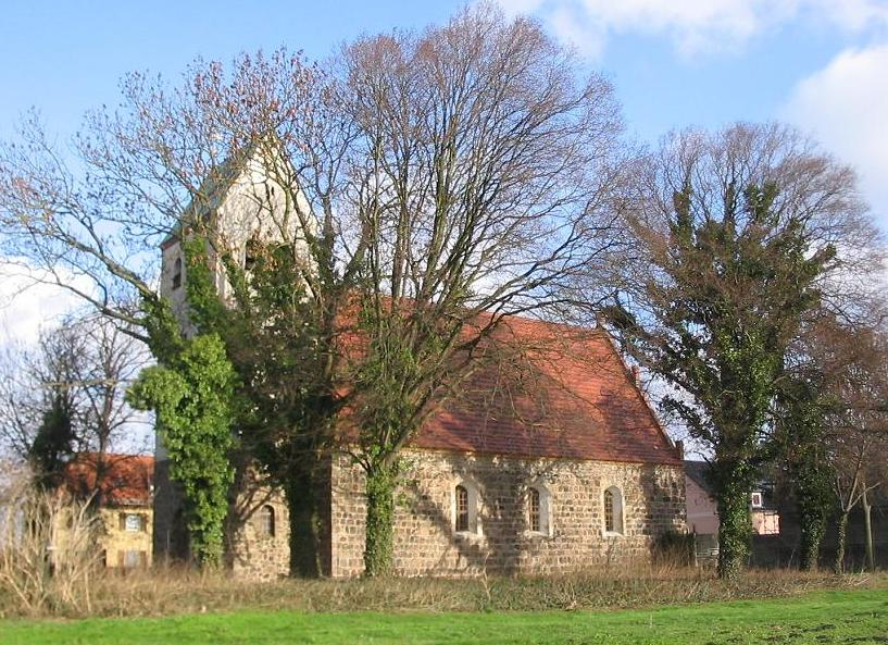 Stonechurch Waßmannsdorf, built probably in 13th century. The village Waßmannsdorf is a part of the municipality Schönefeld in the district Dahme-Spree, state Brandenburg, Germany.